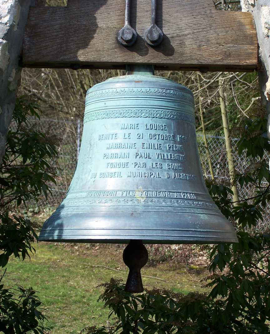 Bell remainding from the church of Aigremont (Yvelines, France)